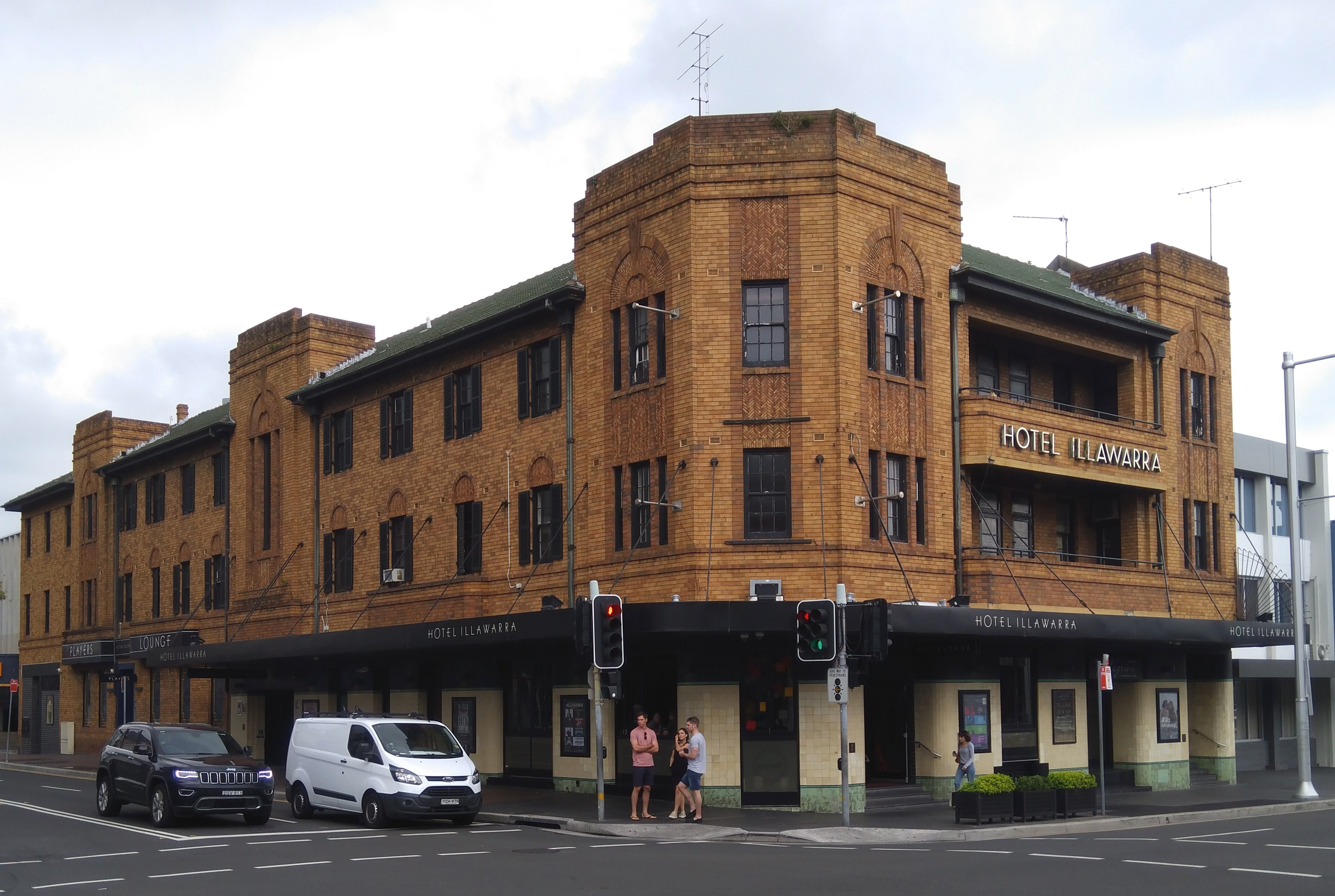 Hotel Illawarra, Wollongong